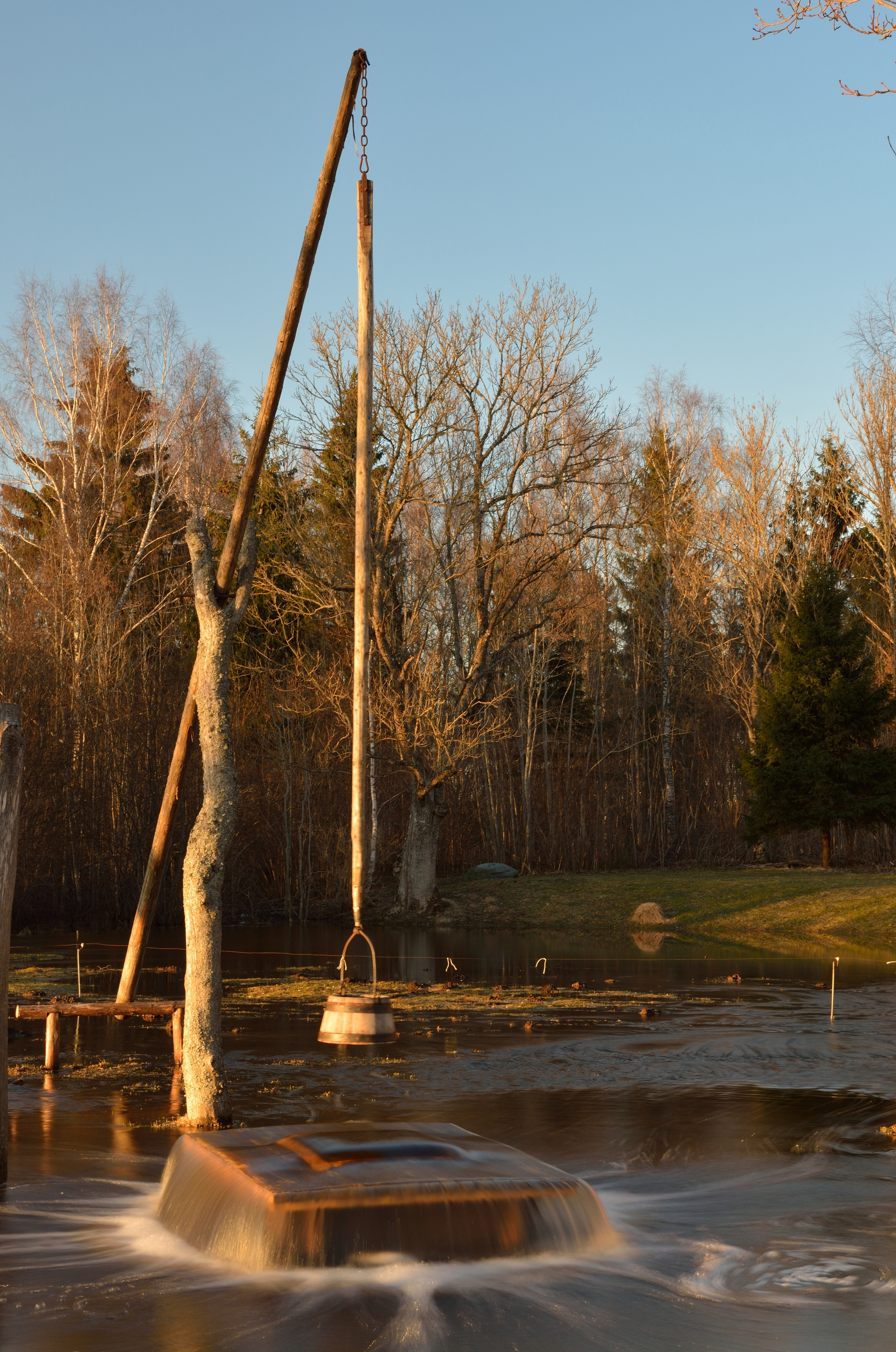 Witch's Well (karst spring) in Tuhala (Estonia) is "boiling over". Water erupts for only a short period of time and not every year. It starts to come out from the well when excess water from the Mahtra swamp fills up the underground river and the overflowing river water seeks an escape through the well. According to local legend, the well boils over when the witches of Tuhala make a sauna below the ground and beat each other with birch branches, causing a commotion on the surface.